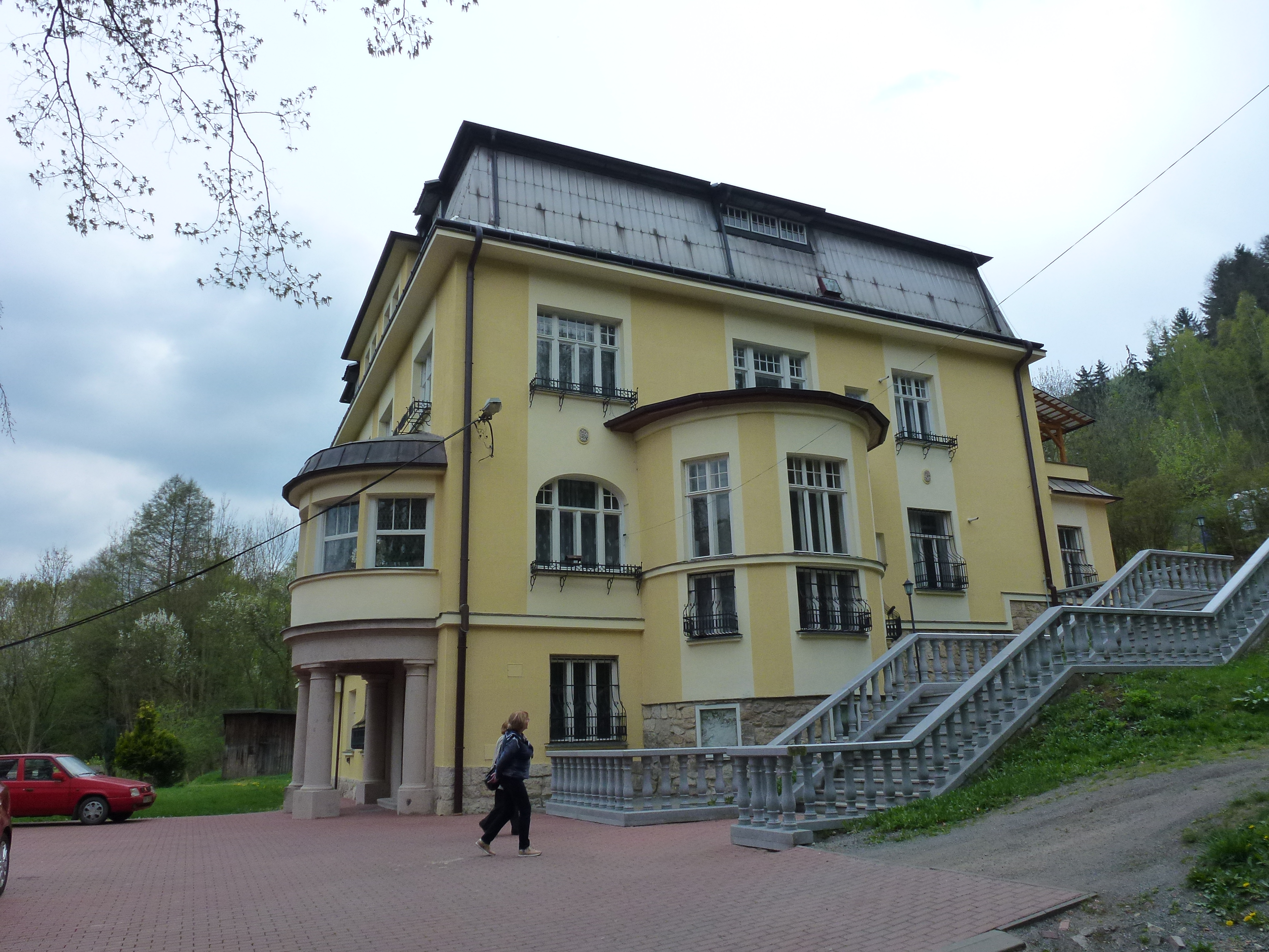 Villa Löw-Beer (Půlpecen)